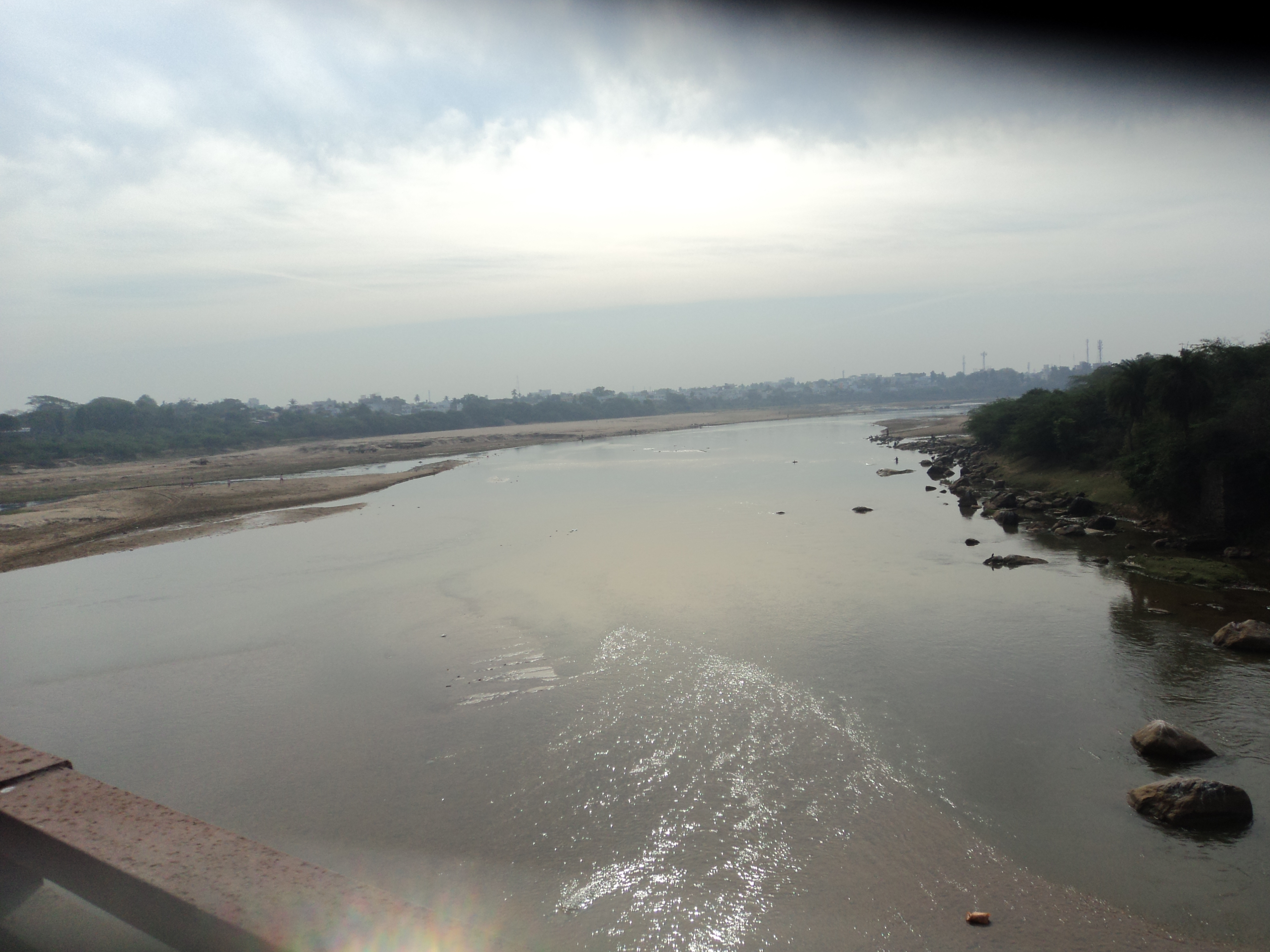 This is photograph of Nagavali river near Srikakulam taken from the new road bridge by me.Rajasekhar1961 (talk) 13:25, 23 February 2012 (UTC)